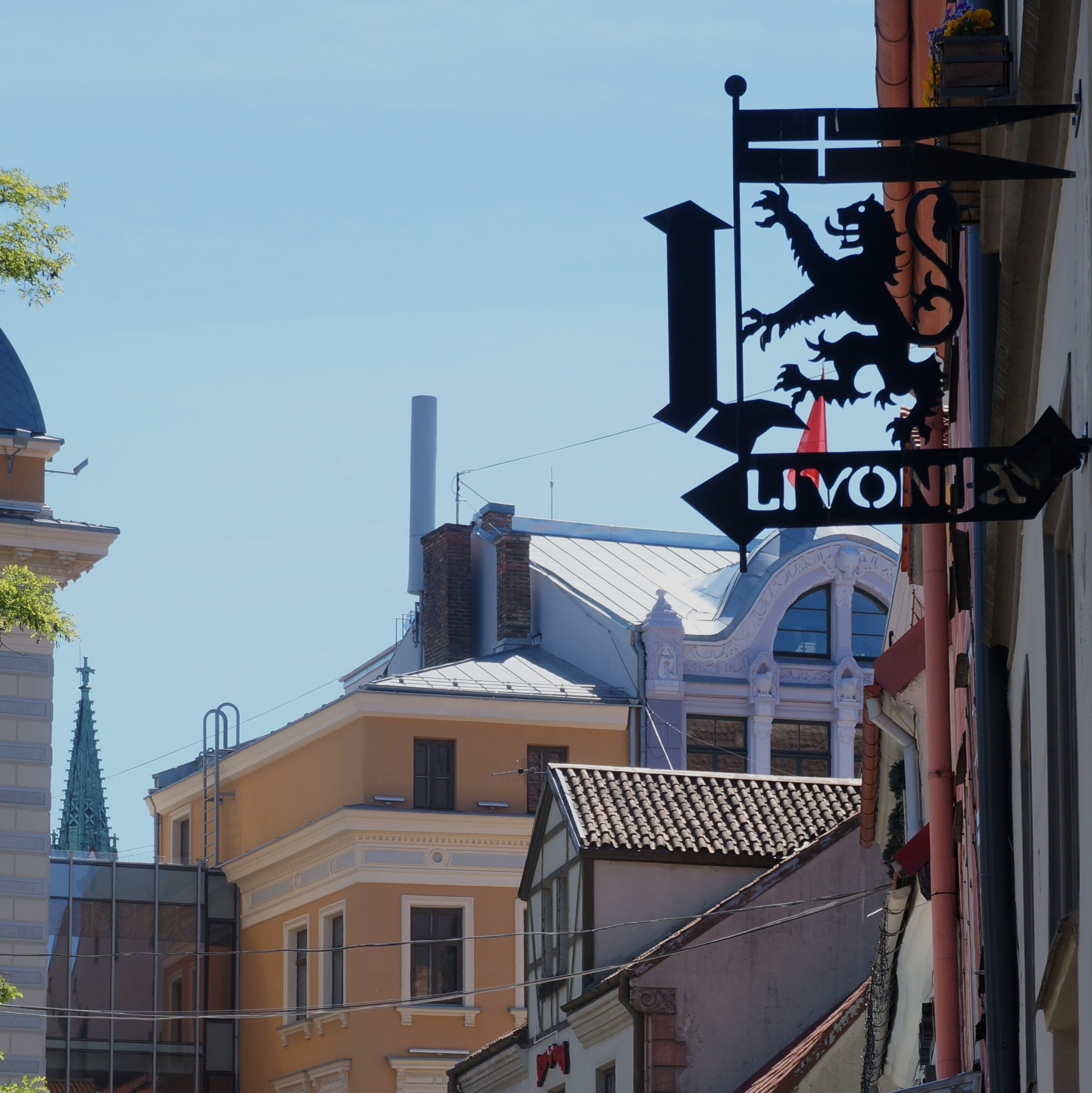 Sign in Meistaru iela Livonija Riga, Latvia Latvia.